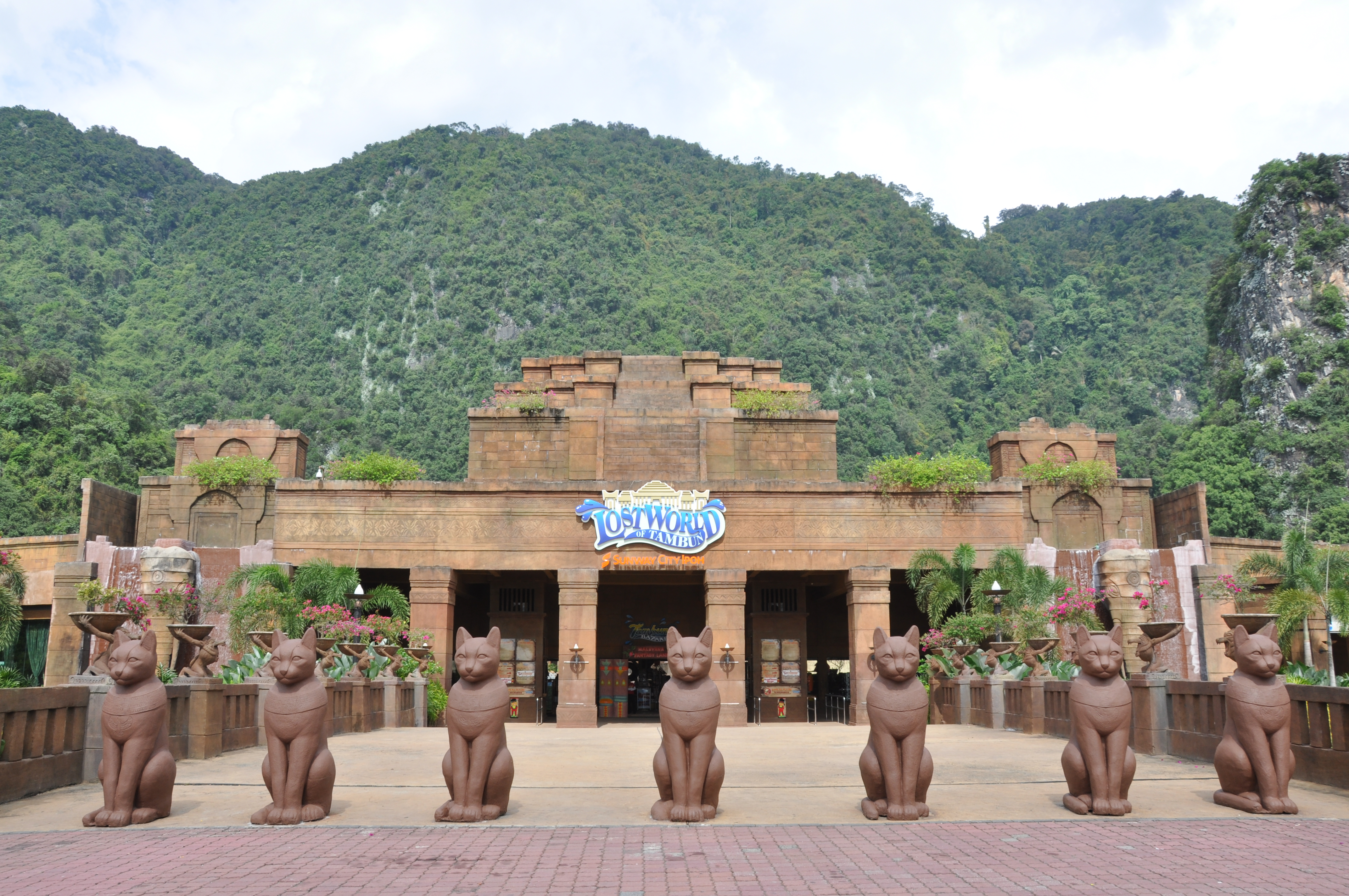 Lost Word of Tambun Main Entrance